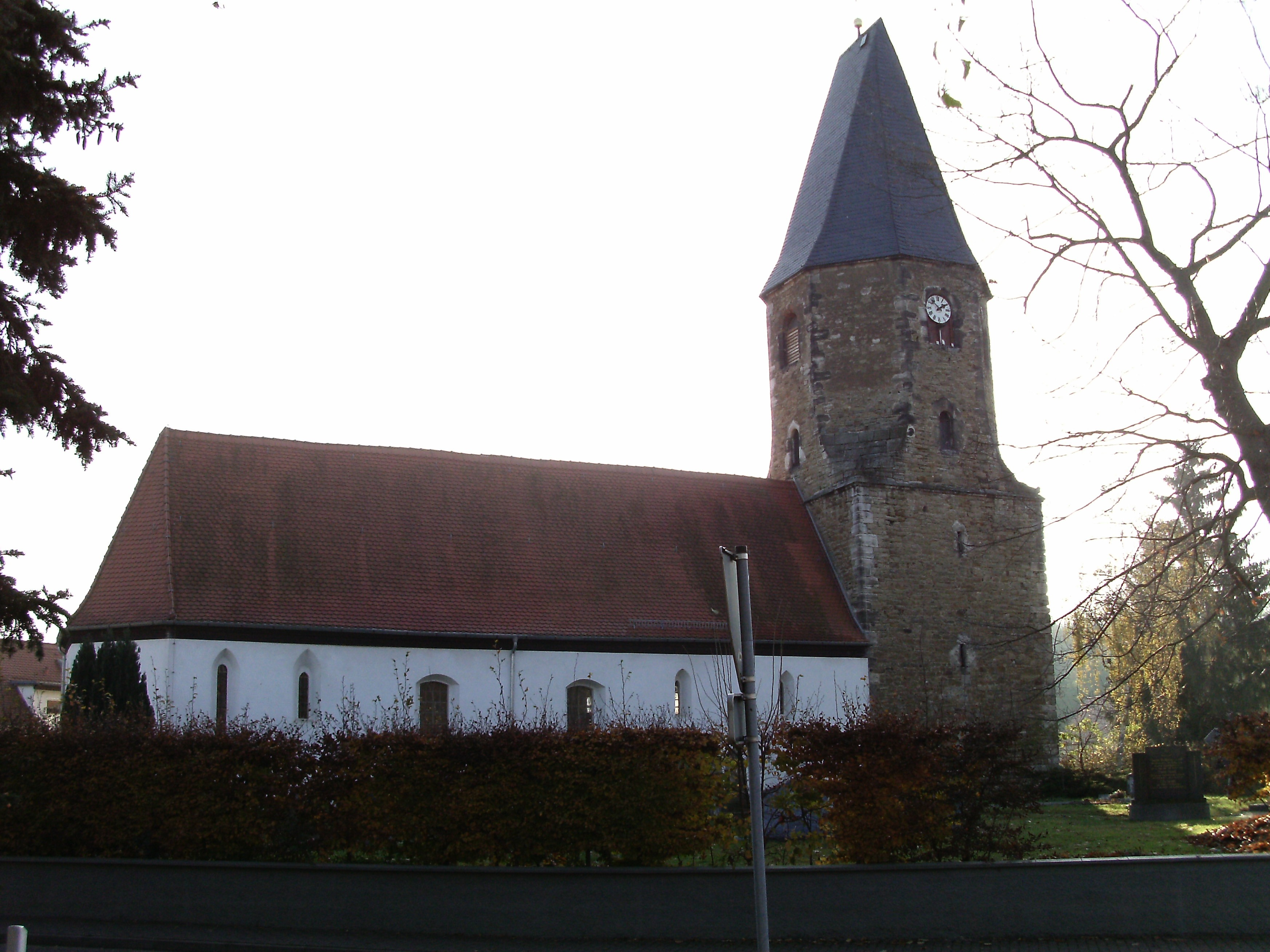 Horburg Church (Leuna, district of Saalekreis, Saxony-Anhalt)